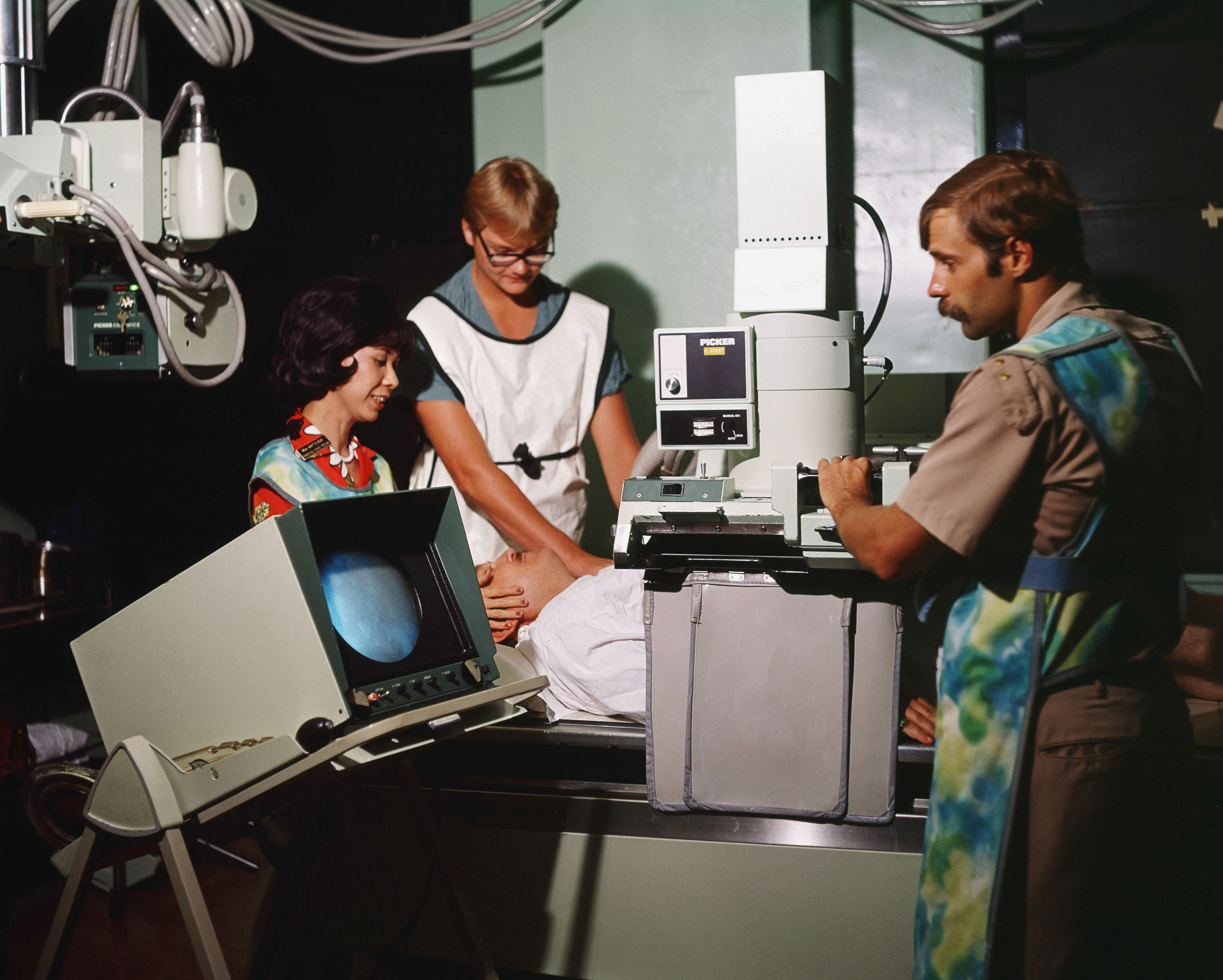 STAFF Sergeant Richard J. Segrist, non-commissioned officer in charge, Medical Co. B, Tripler Army Medical Center, examines a patient's eyes using a non-contact tonometer of Picker Corporation.